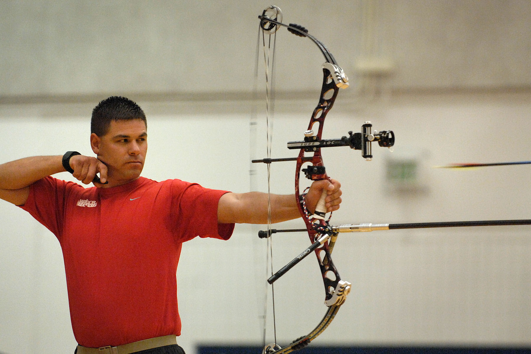 U.S. Marine Cpl. Beau Parra, based out of the Wounded Warrior Detachment Hawaii, releases his arrow during the compound bow gold medal round competition at the Warrior Games at the Olympic Training Center, Colorado Springs, Colo. May 12, 2010. Parra went on to take the gold in the compound bow event. The Marines also claimed silver in that category and Army claimed the bronze medal.